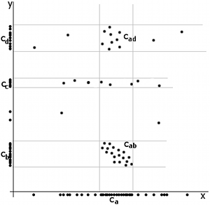 Picture showing various clusters in a 2D spatial space